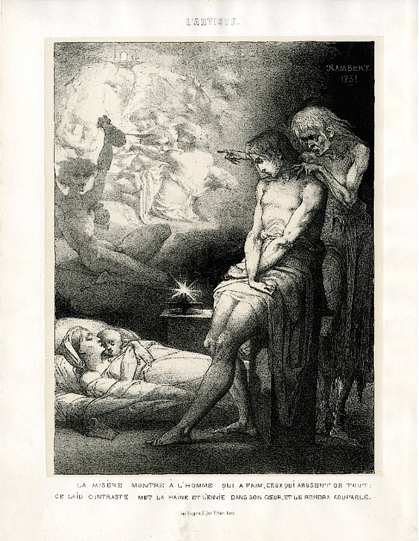 La Misère montre à l'homme qui a faim, ceux qui abusent de tout; ce laid contraste met la haine et l'envie dans son cœur, et le rendra coupable, one of the eight lithographies, published in L'Artiste (Paris) and printed by Kaeppelin & Cie (Paris).